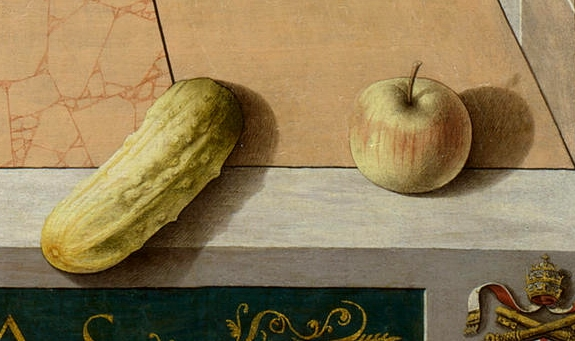 Annunciation with St Emidius, oil on wood transferred to canvas, 207 x 146,5 cm, National Gallery, London